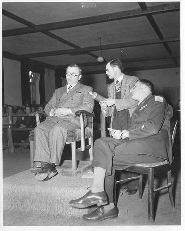 Original footage: 22 April. Pictured here on the witness stand at the Buchenwald War Crimes Trials at Dachau, Germany, is Prof. Pierre Biermann, of Luxemburg, a witness for the prosecution. Also shown are l/r: Werner Klein, radio reporter, and translator Rudolf Nathanson